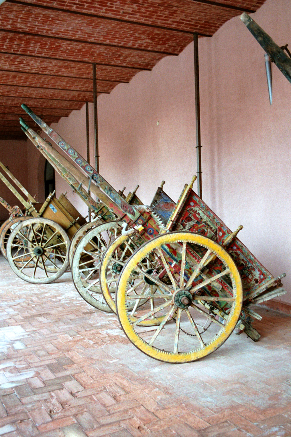 Terrasini, Italy. Museo Civico, Section of Ethnology Some of the famous Sicilian Carts